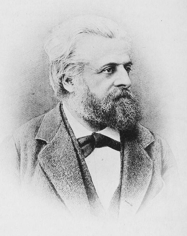 Engraving of Doctor L.A. Bertillon. From the work shown, published by his sons in 1883. Cropped and converted to grayscale with gimp.